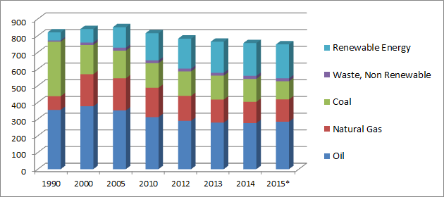 Gross Energy Consumption in Denmark (PJ) 1990-2015. *Preliminary Data.